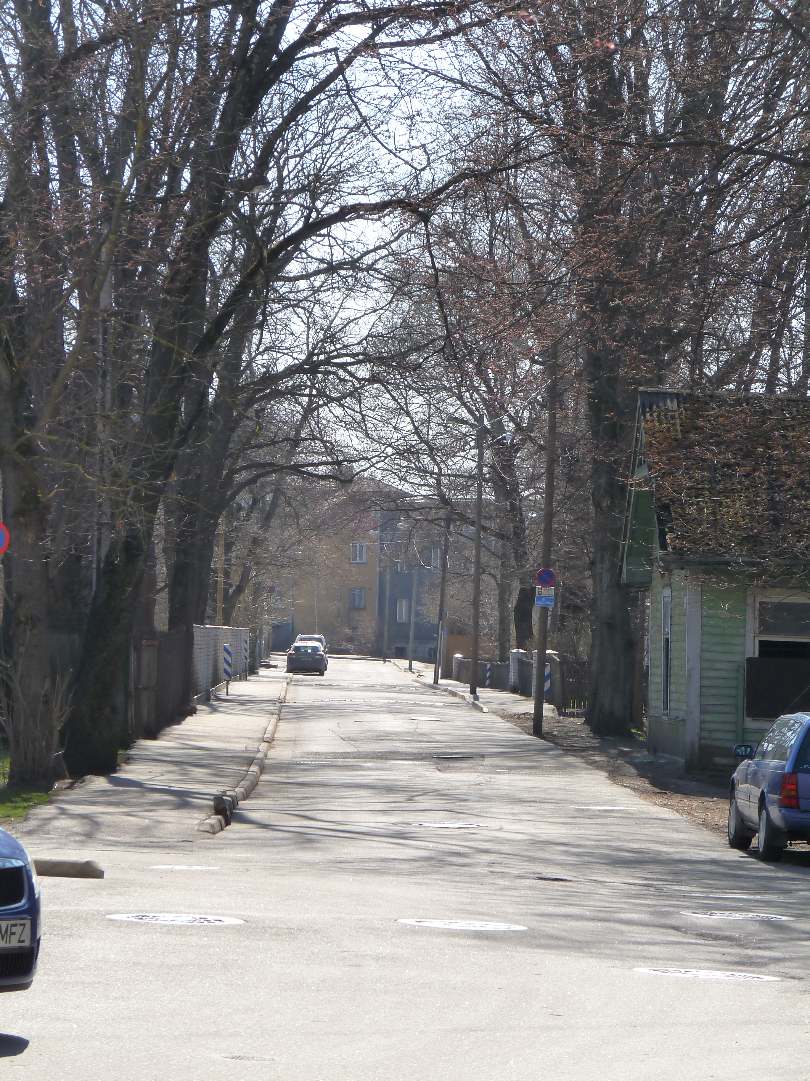 Magdaleena street in Tallinn, Estonia